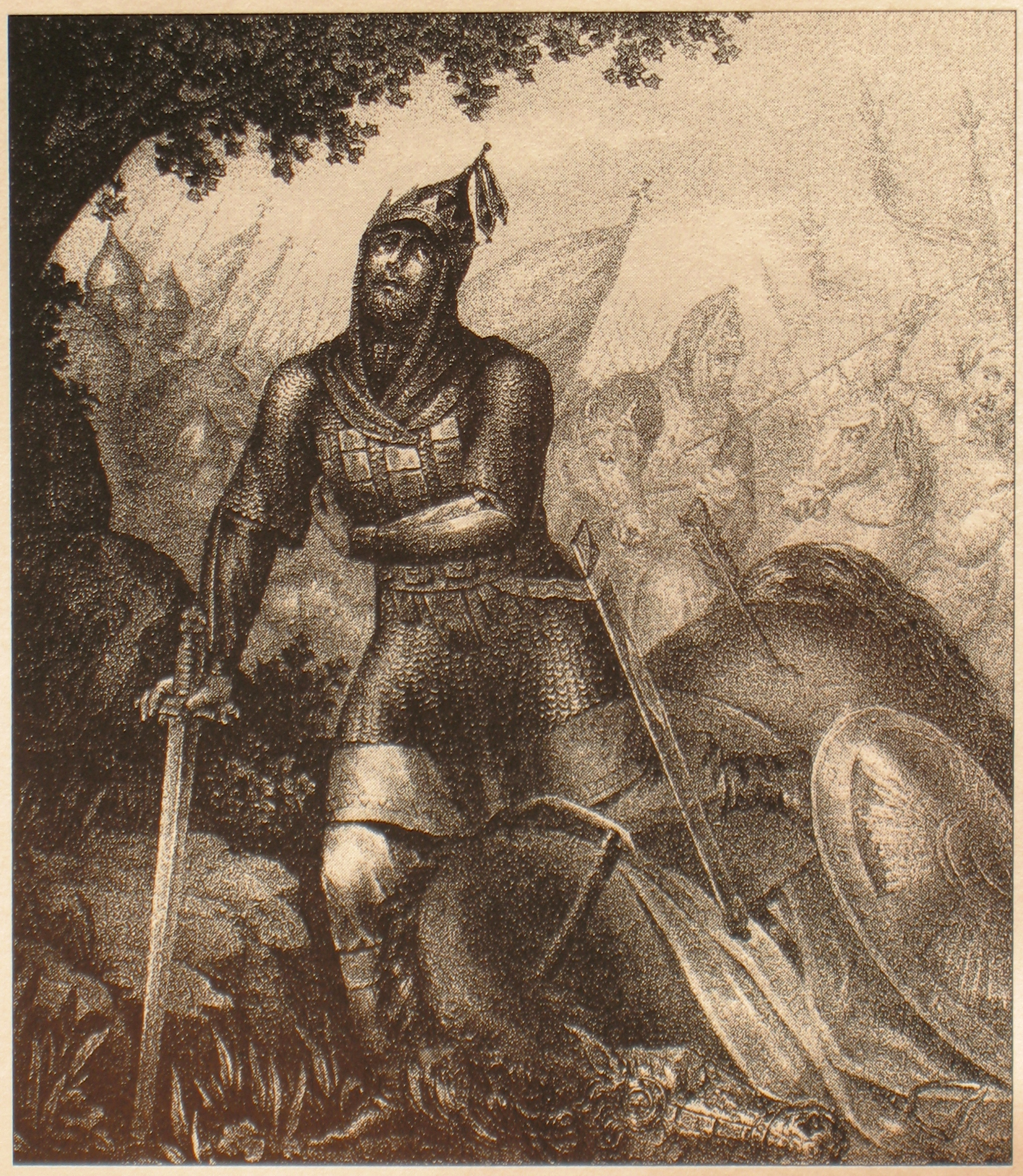 Dmitry Donskoy in Battle of Kulikovo. Wounded Dmitry Donskоy. Дмитрий Донской, получивший рану в битве с Мамаем, на Куликовом поле. Гравюра.